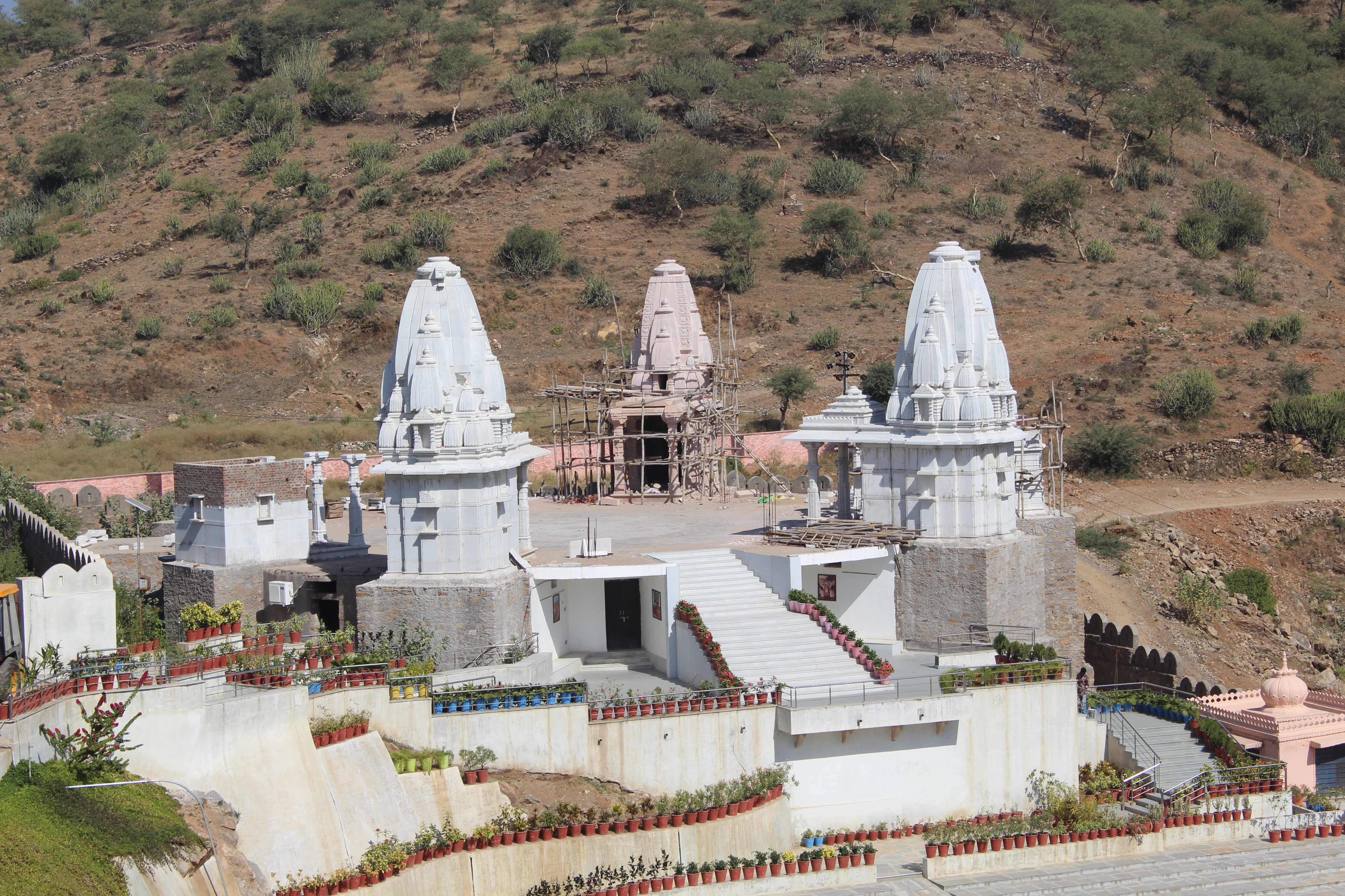 Nine Temples are being built